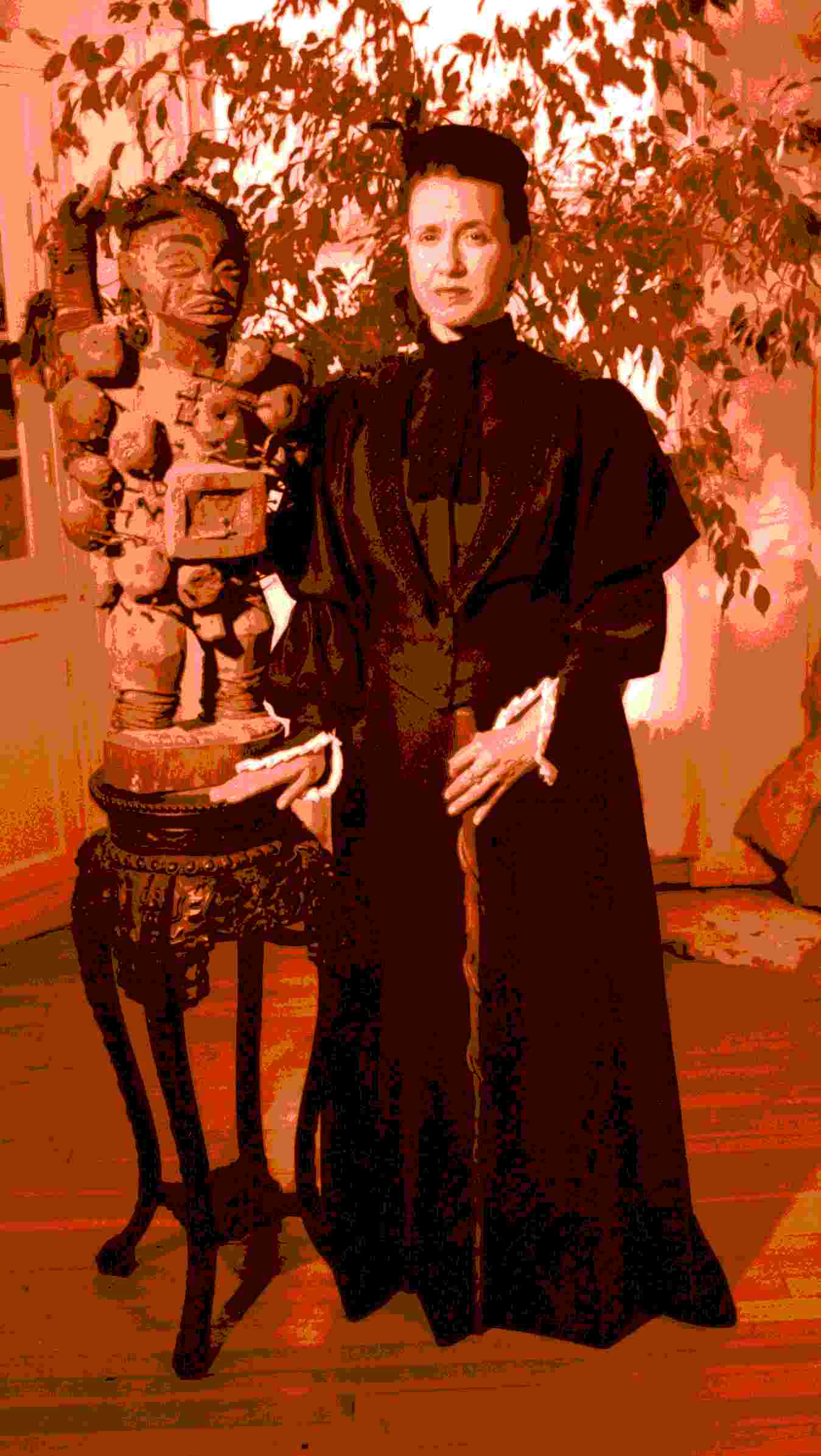 Portrait of Mary Kingsley (1862-1900)